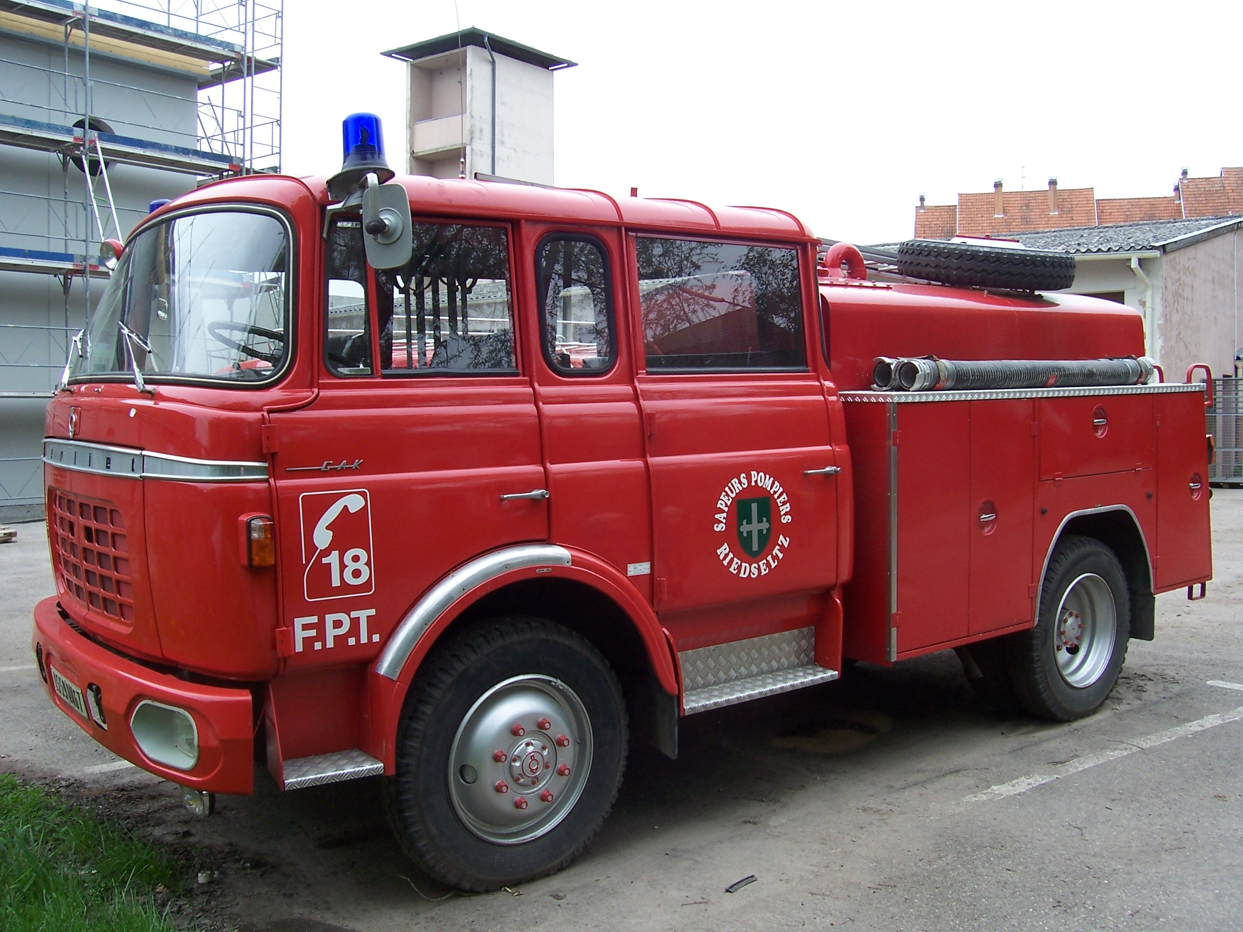 A Berliet GAK fire engine in Wissembourg, Bas-Rhin (Alsace), France